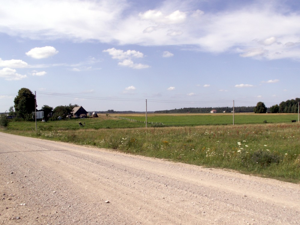 Džiuikiai, Šiauliai district, Lithuania